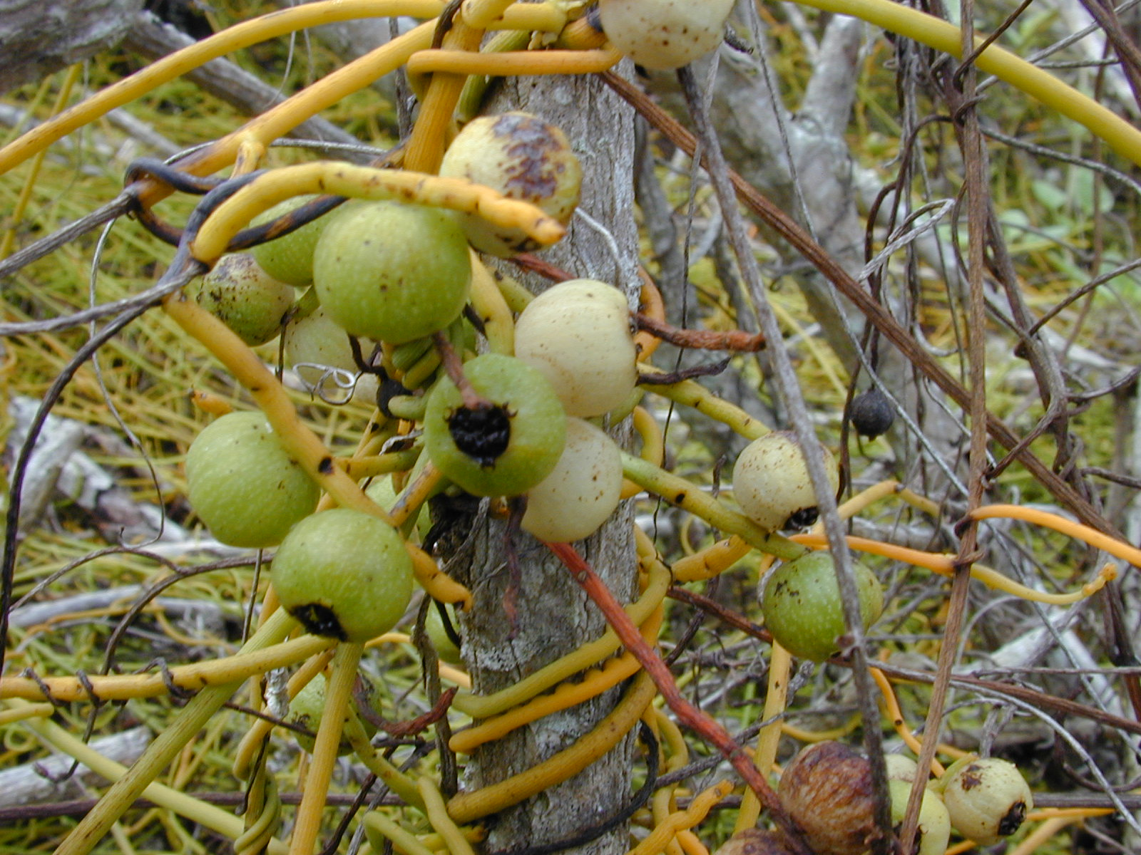 Cassytha filiformis (fruits). Location: Kure Atoll, Inland